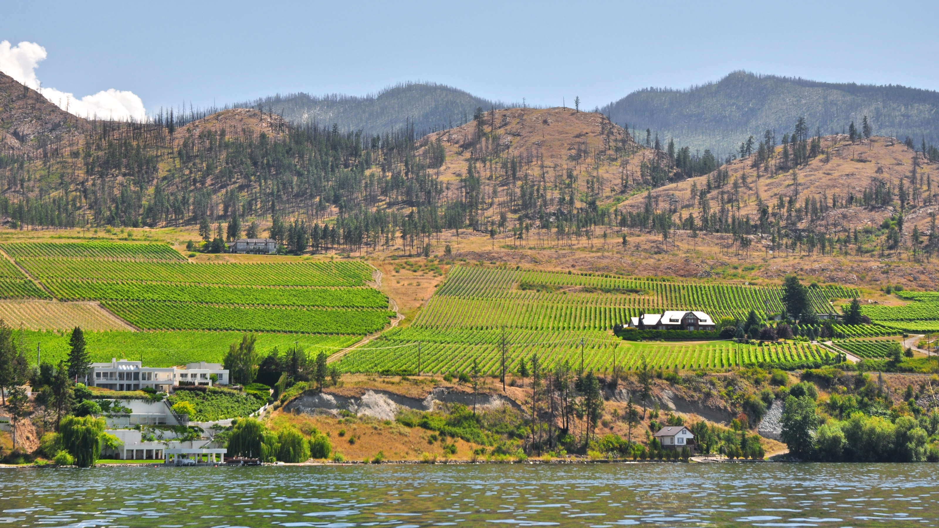 Vineyard growing in the Canadian wine region of Okanagan in British Columbia.